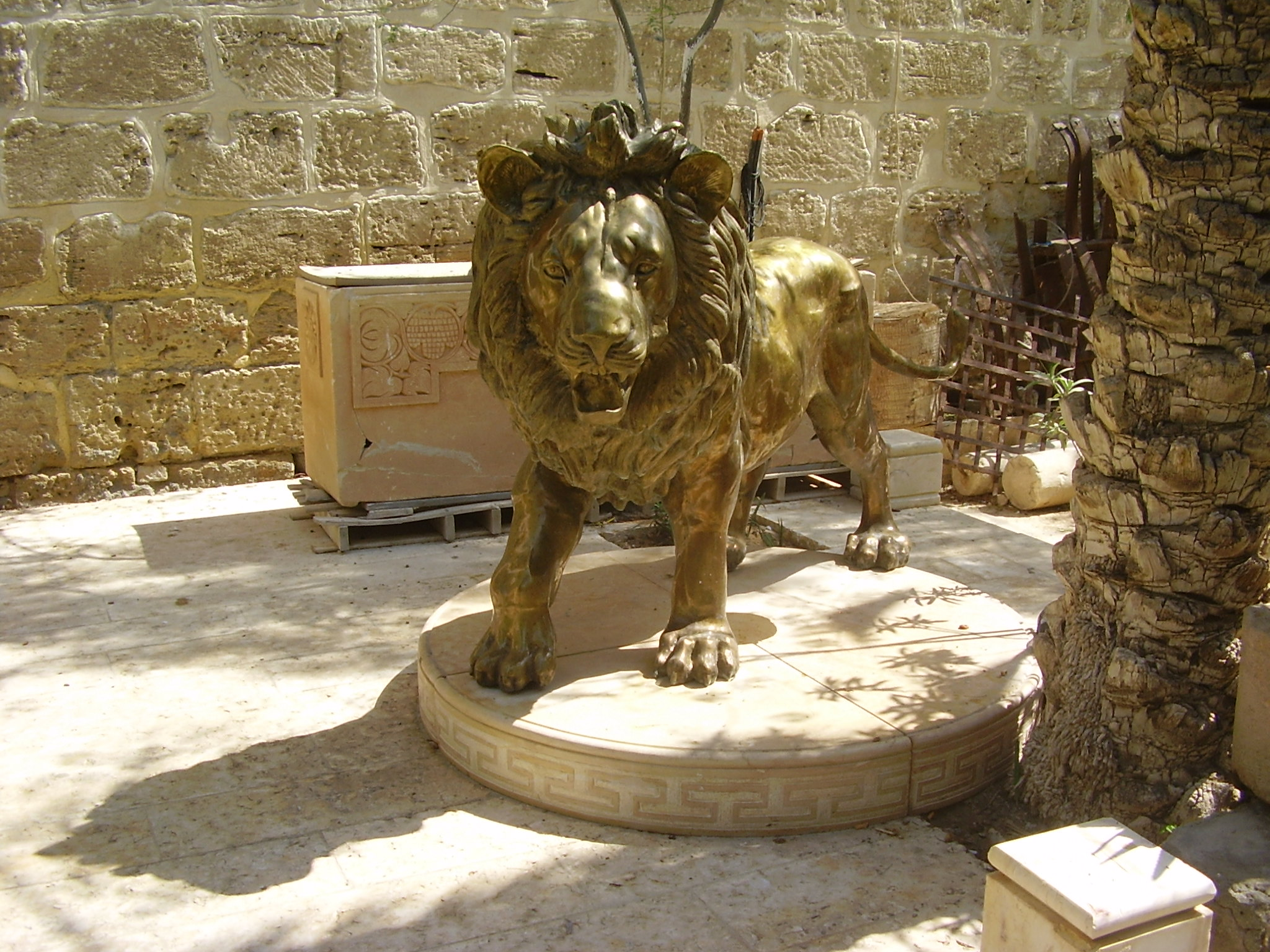 Dier Hajleh Monastery in Jordan Valley